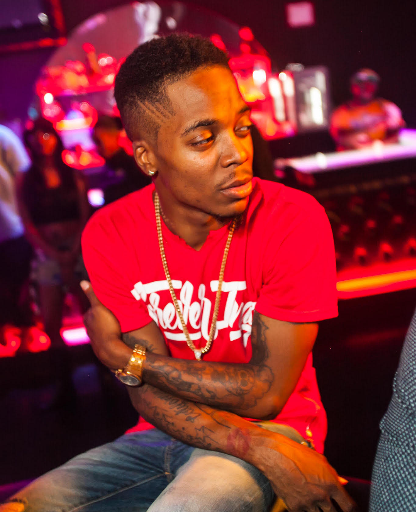 Young Scrap is an American recording artist, rapper and songwriter.